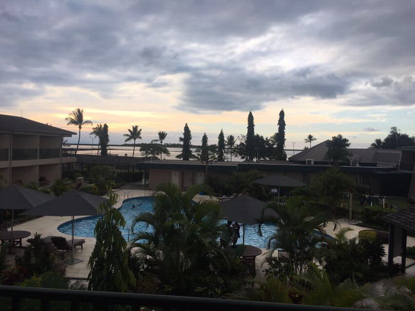 A window view of the Denarau Island Resort at sunset.